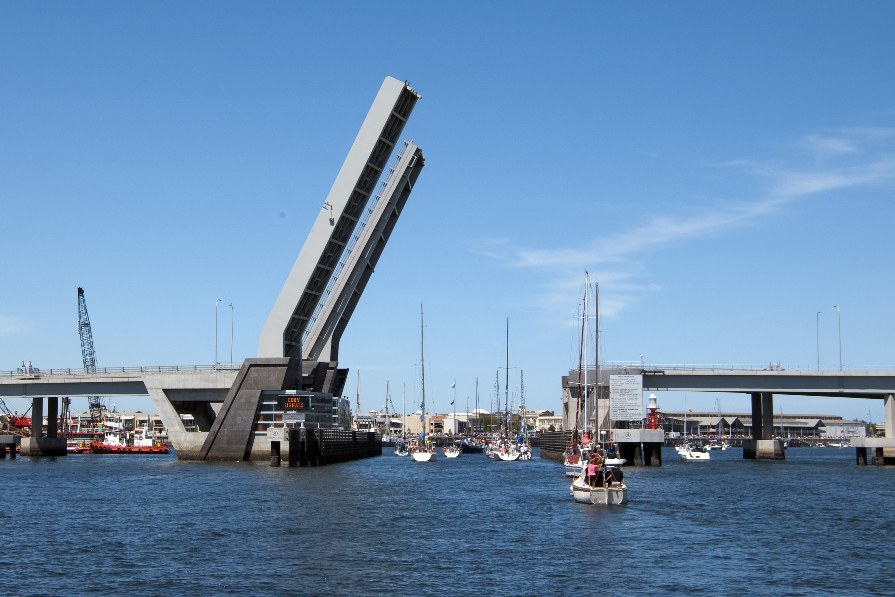 The Tom 'Diver' Derrick and the Mary MacKillop bridges at Port Adelaide open to allow passage of the boats at the annual fund raiser, Flotilla for Kids, on the Port River, Adelaide, South Australia.